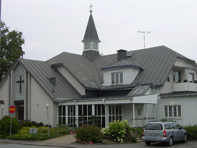 Betel Church in Vaggeryd, Sweden